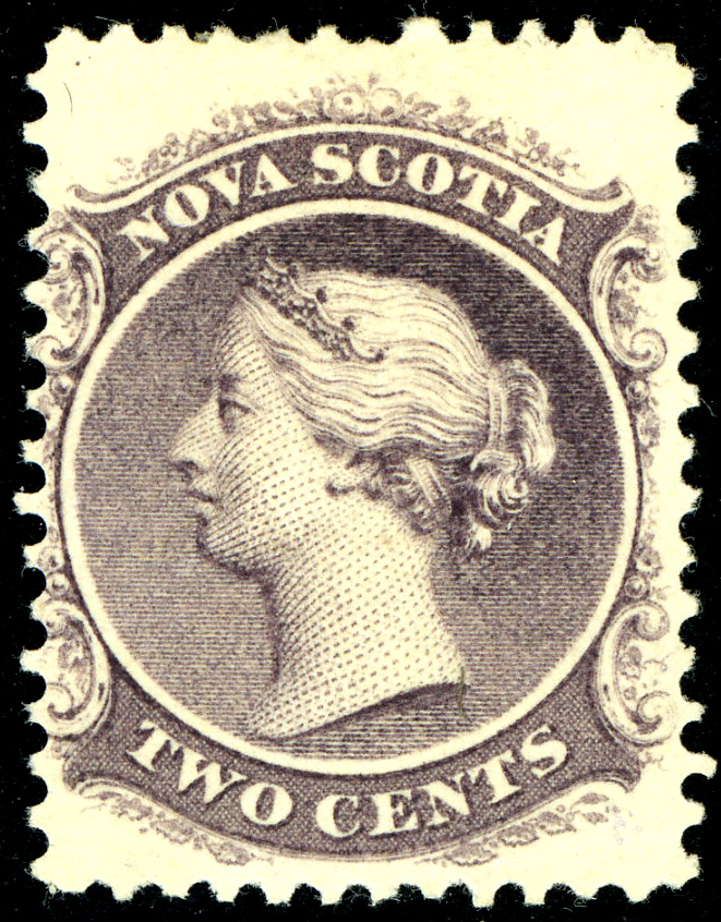 Nova Scotia 2 cents white paper